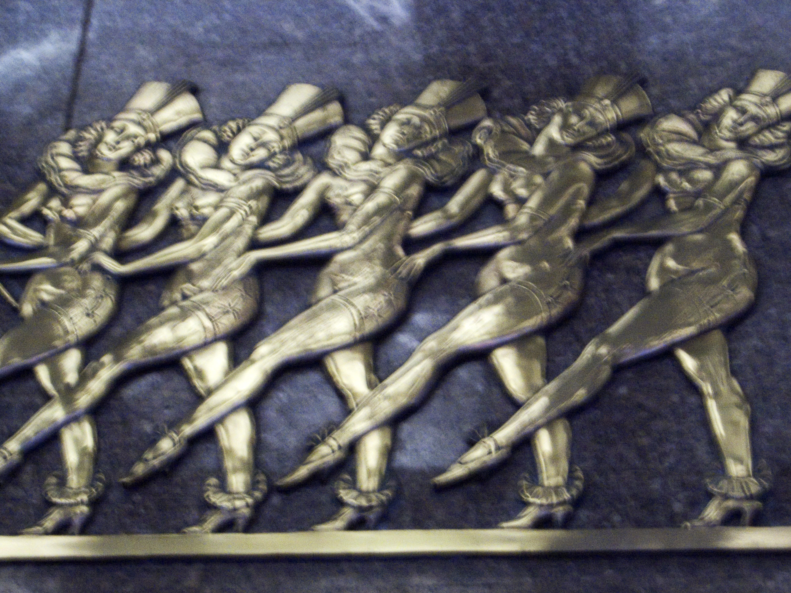 Wikipedia Loves Art at the Film Society of Lincoln Center This photo of w:| supported by the Film Society of Lincoln Center was contributed under the team name "The_Grotto" as part of the Wikipedia Loves Art project in February 2009. The original photograph on Flickr was taken by cjn212—please add a comment to the original Flickr page whenever a use has been made on Wikipedia or another project. Project galleries on Flickr: this institution, this team